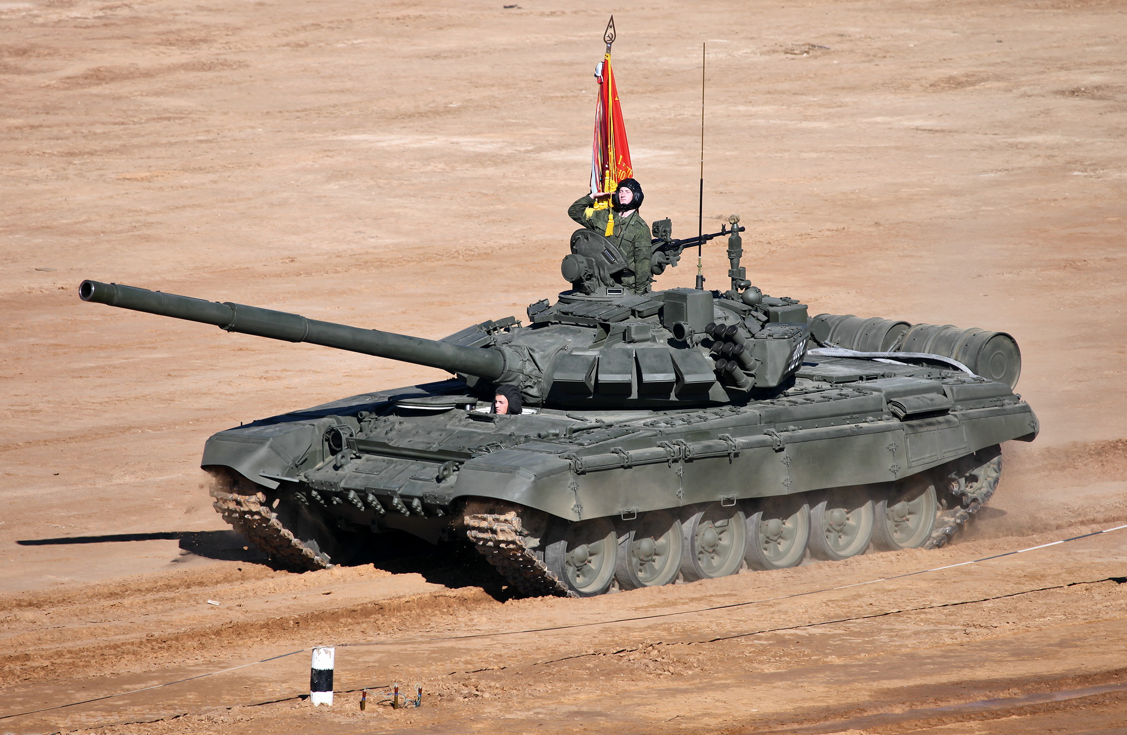 T-72B3 in the 2013 tank biathlon in Alabino